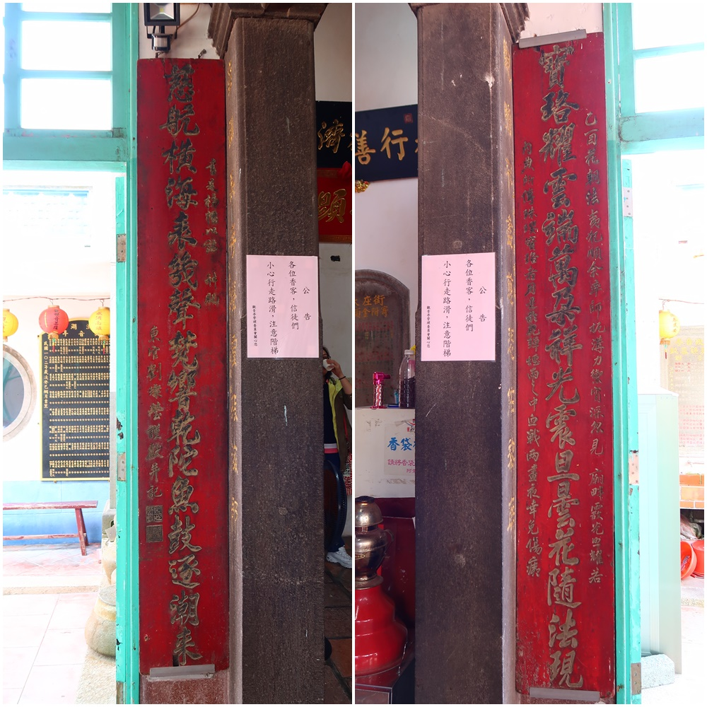 After Sino-French War (Pescadores Campaign), one of the battle participant, Liu Can-Ying（劉璨瑩）sent the Sign Board to Guan-Yin Temple in 1886.